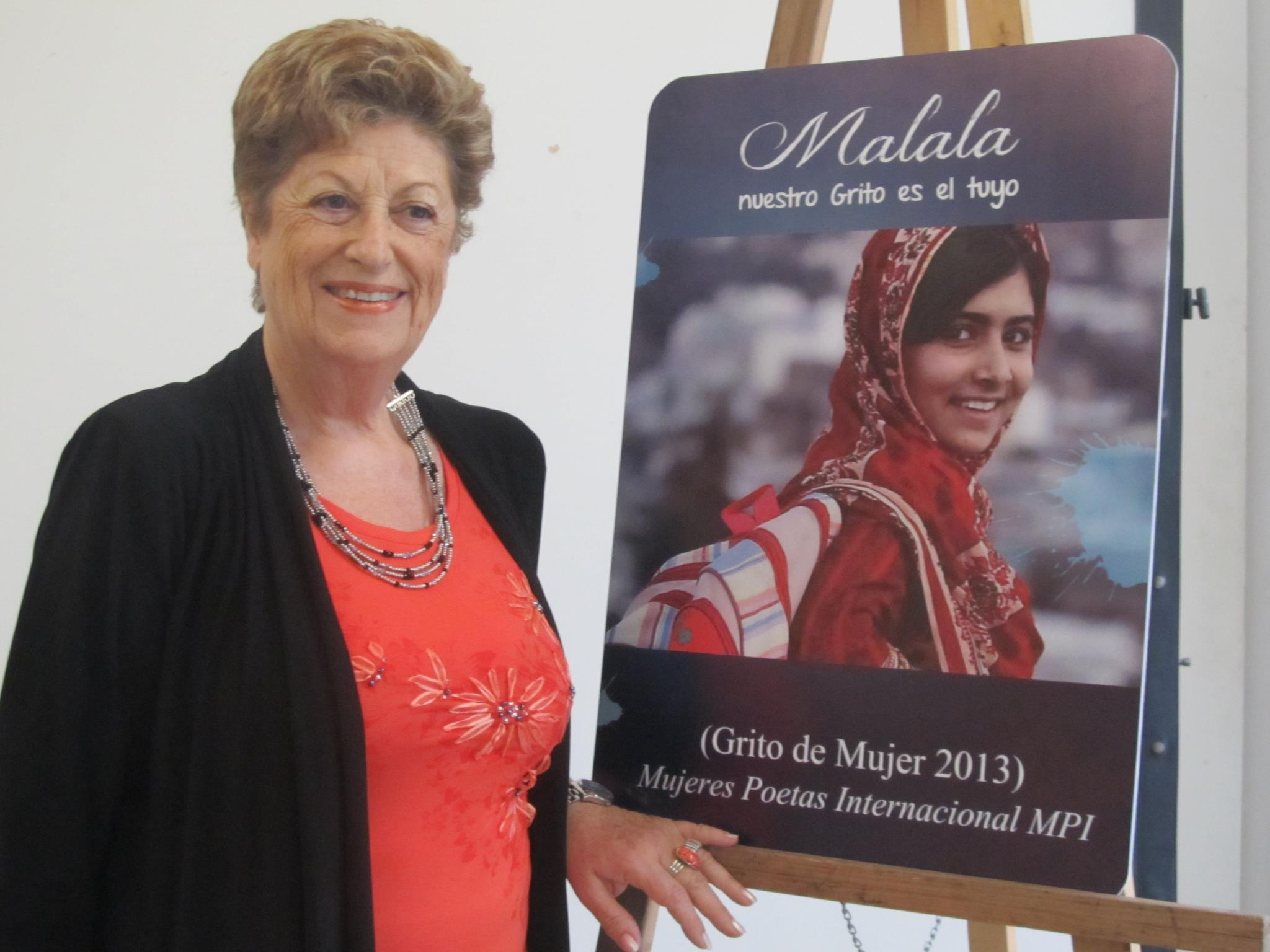 Woman Scream International Poetry Festival in Berazategui,Buenos Aires, Argentina. Called in march from the Dominican Republic by Mujeres Poetas Internacional